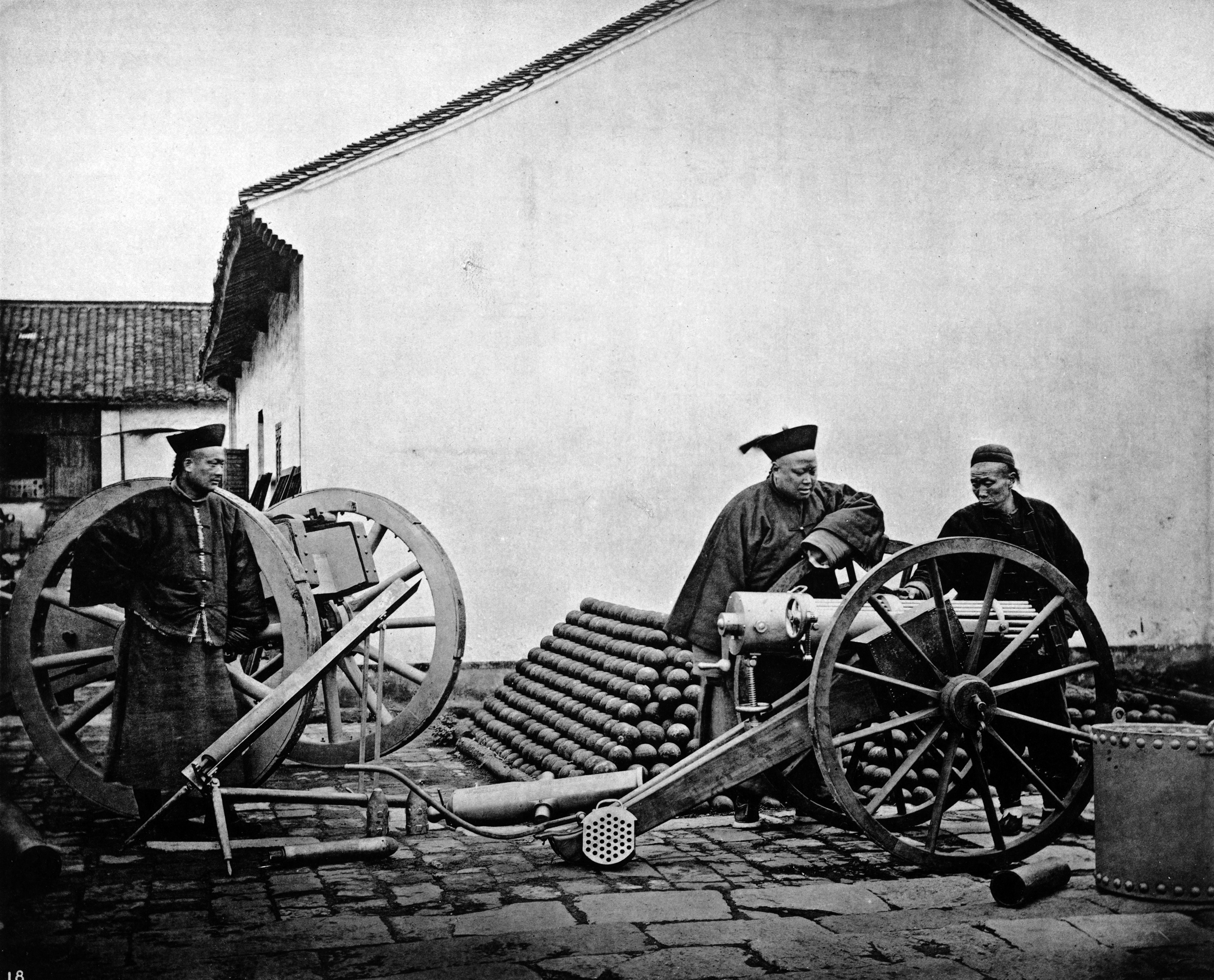 Photograph by John Thomson. See detail on the Wikisource link below.